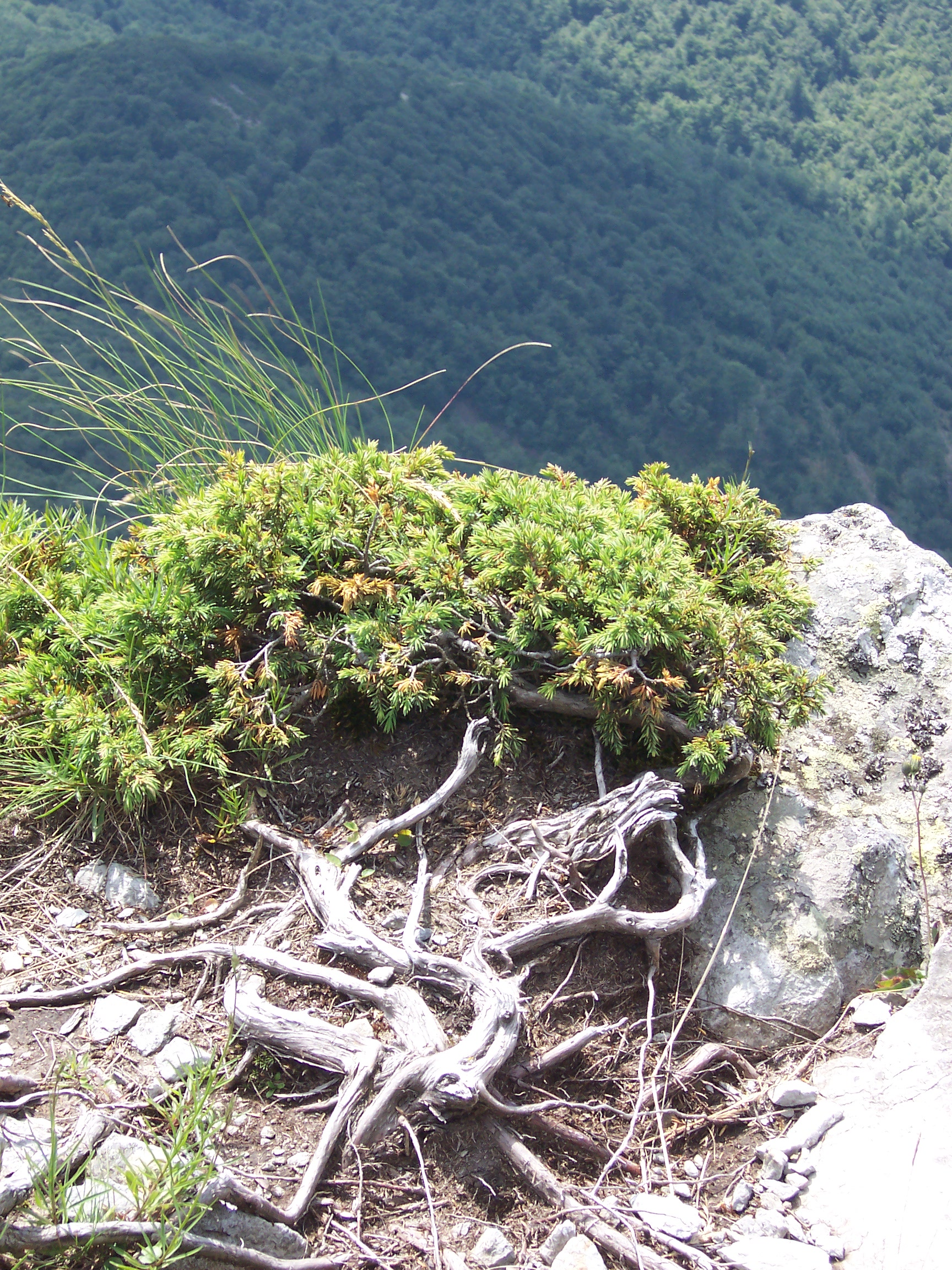 Juniperus communis subsp. alpina (syn. J. sibirica) on the summit of Puy Griou (1694 m) (Cantal, France).